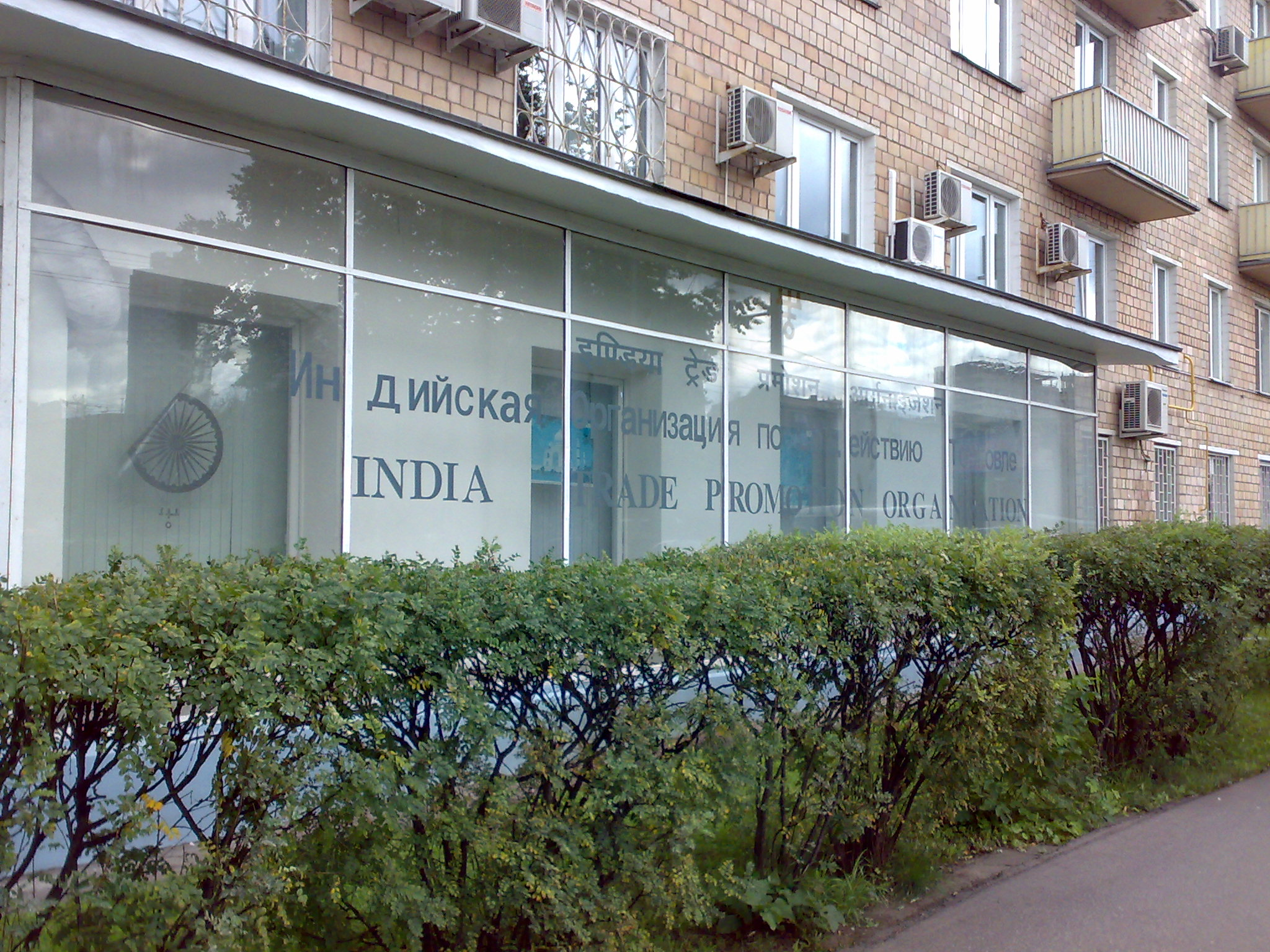 took this image using my mobile phone, in September, 2008. Offices of the India Trade Promotion Organization in Moscow, Russia.